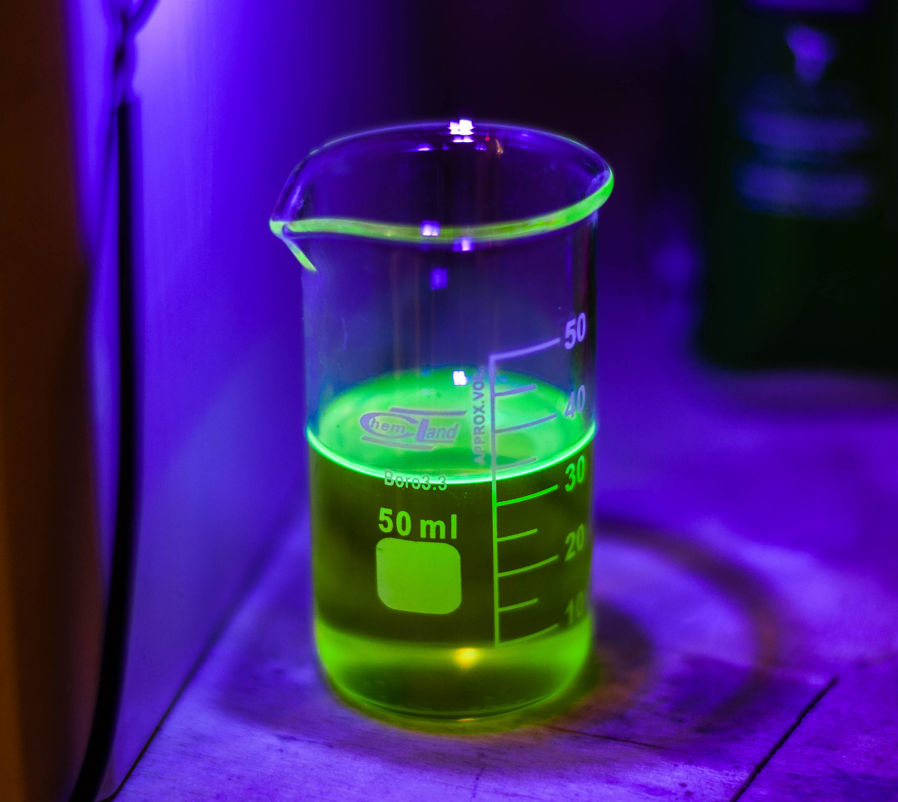 A small beaker of curcumin solution on xylene, under a suspended UV LED.